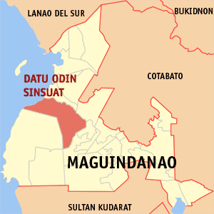 Map of the Maguindanao showing the location of Datu Odin Sinsuat